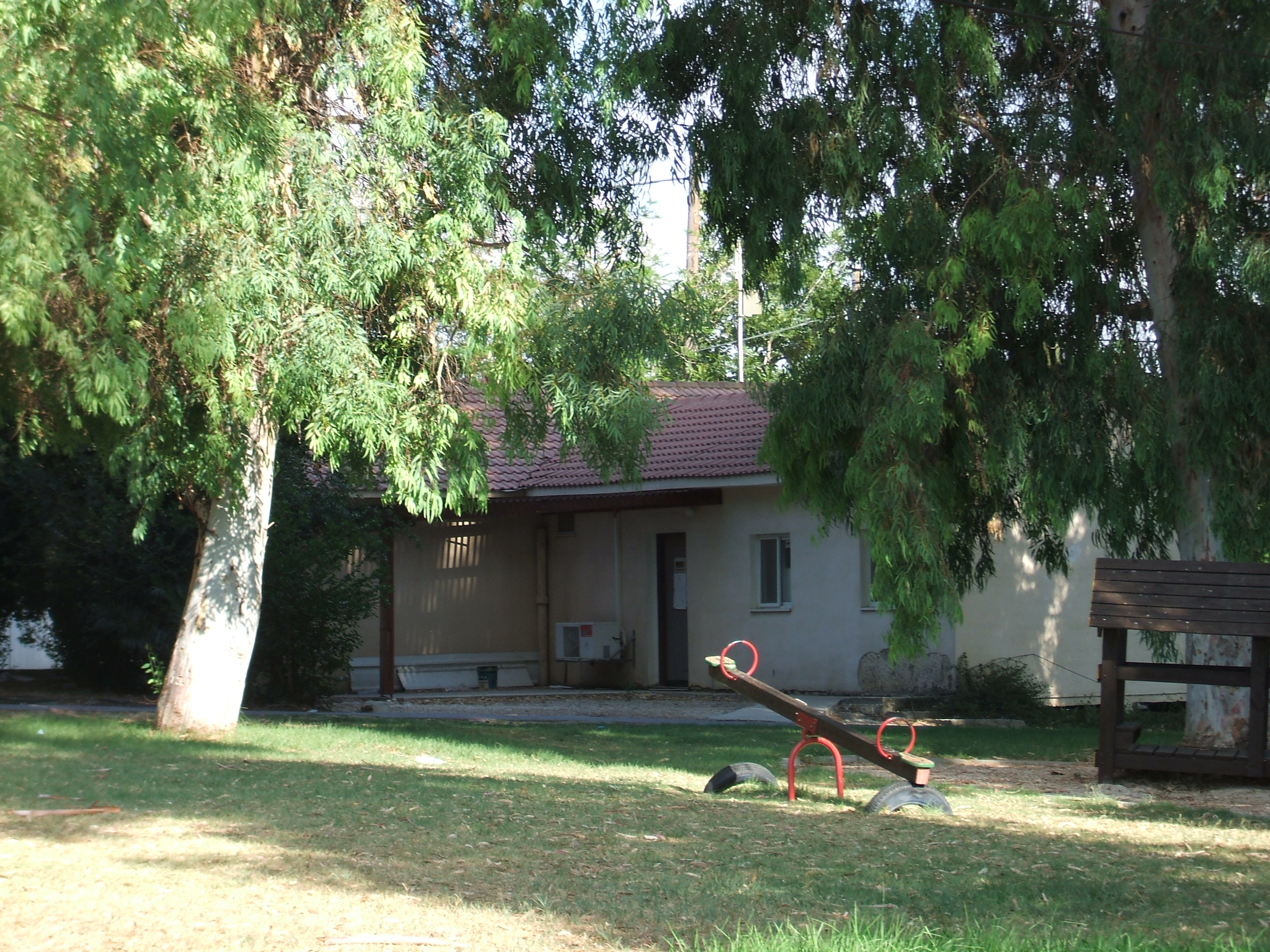 Midrakh Oz, Meggido council, Israel